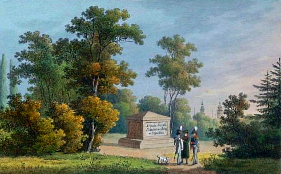 Monument of Prince Józef Poniatowski in Leipzig